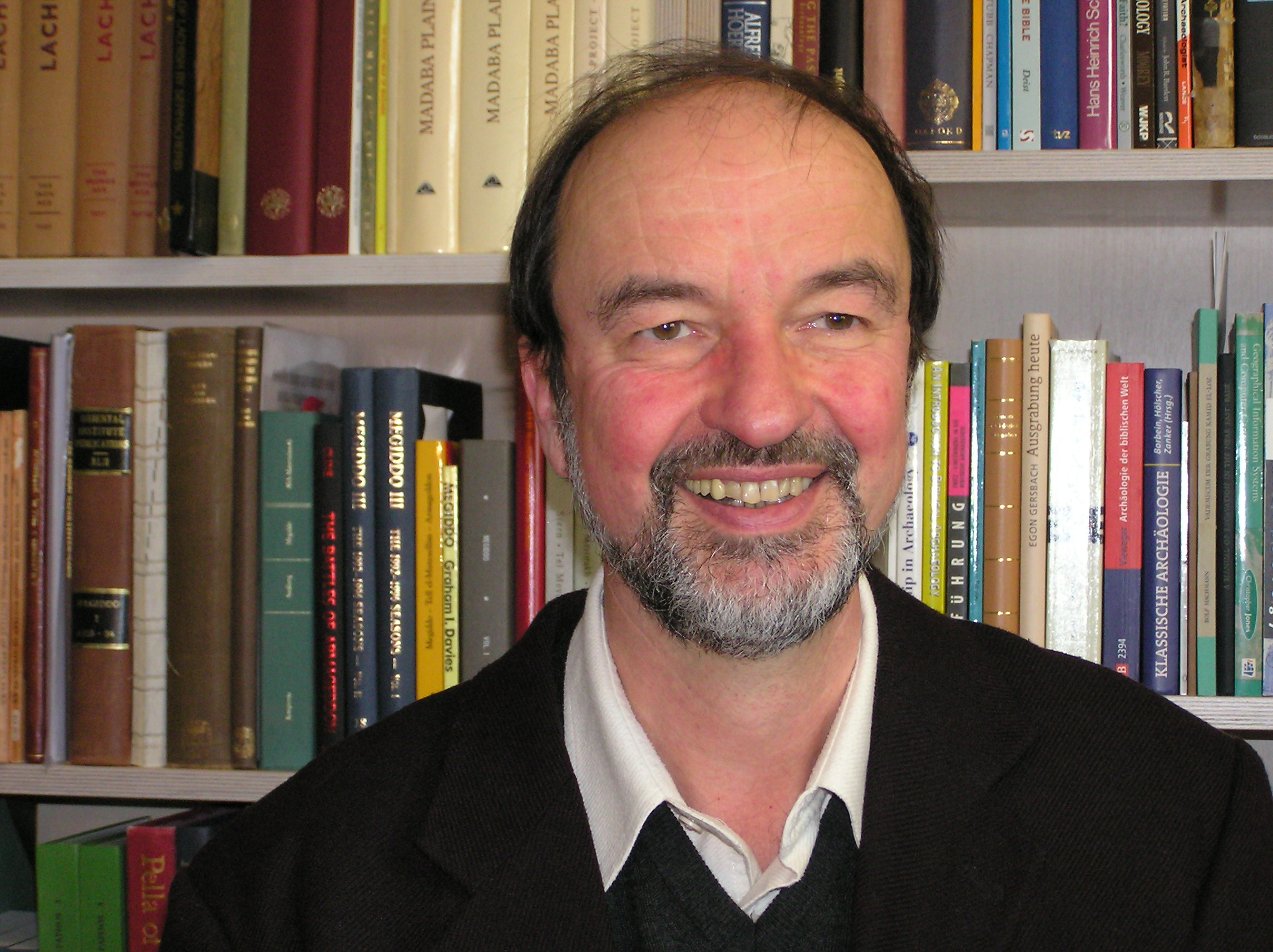 Walter_Dietrich